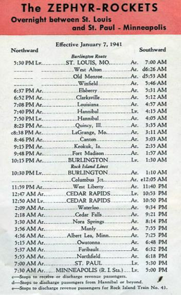 1941 schedule for the jointly operated Zephyr Rockets. The Chicago, Burlington and Quincy and Rock Island Railroads operated this route between St. Louis and Minneapolis/St. Paul from January 7, 1941 until 1967.